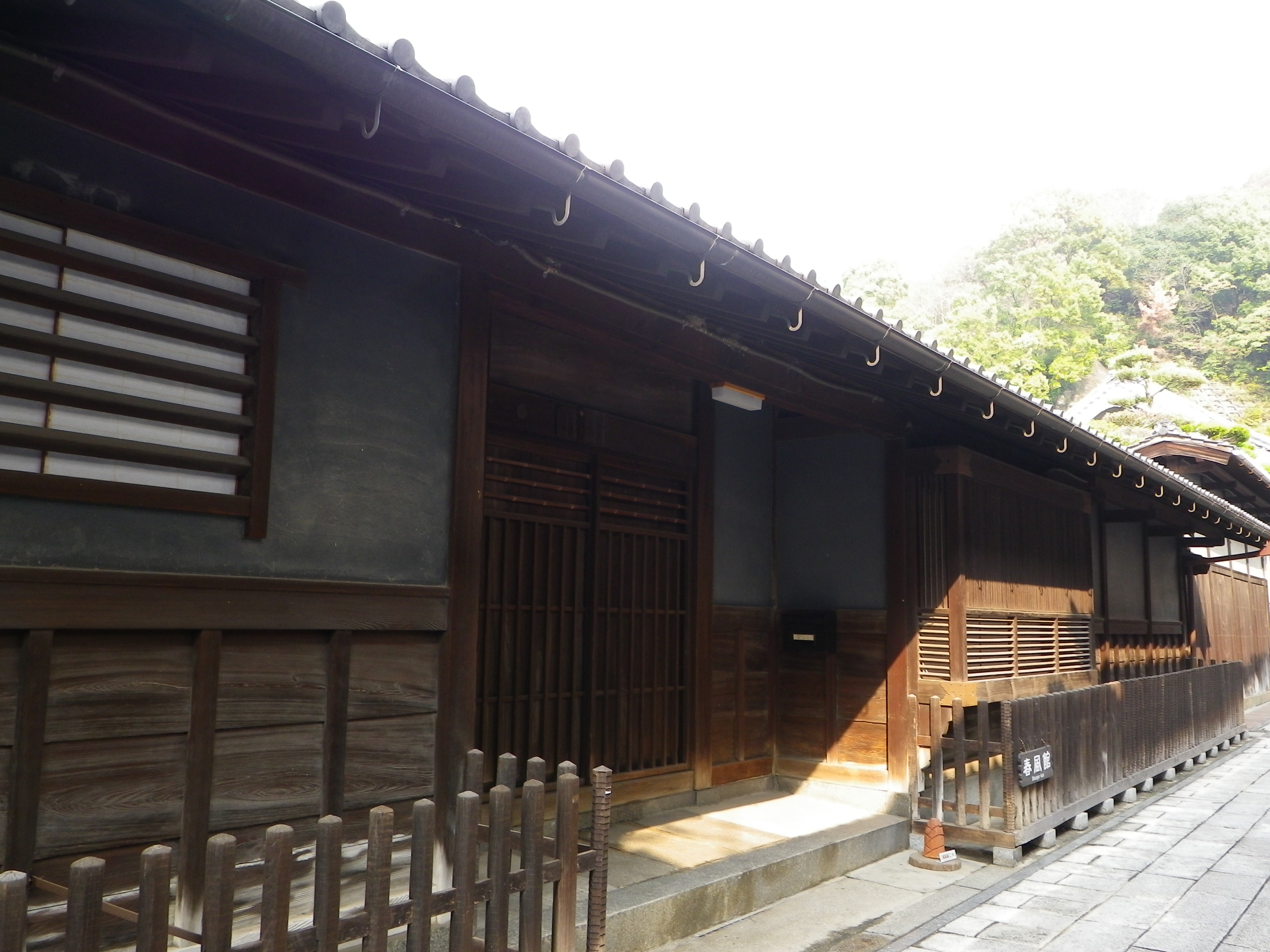 Shunpukan in Takehara